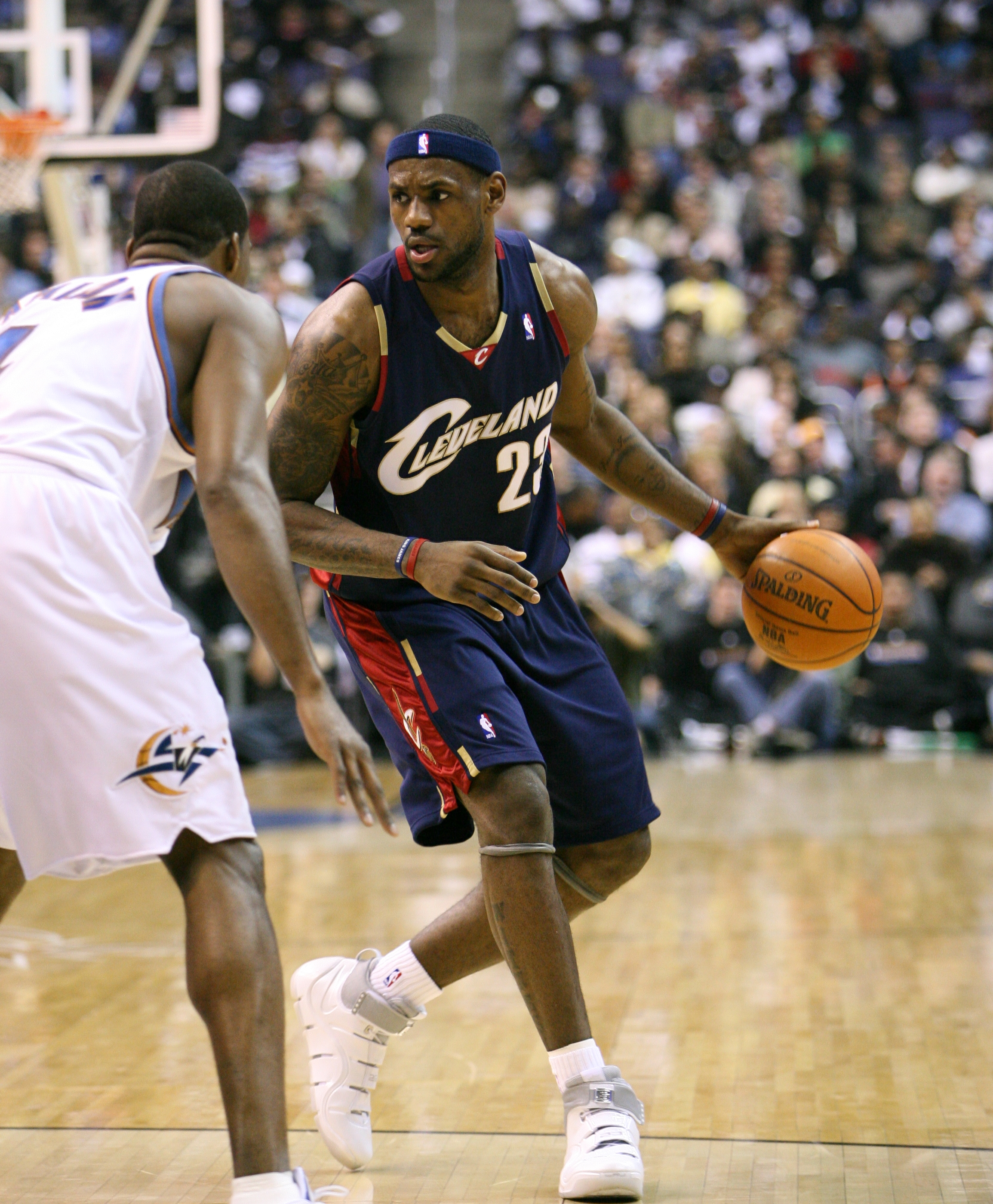 LeBron James playing with the Cleveland Cavaliers